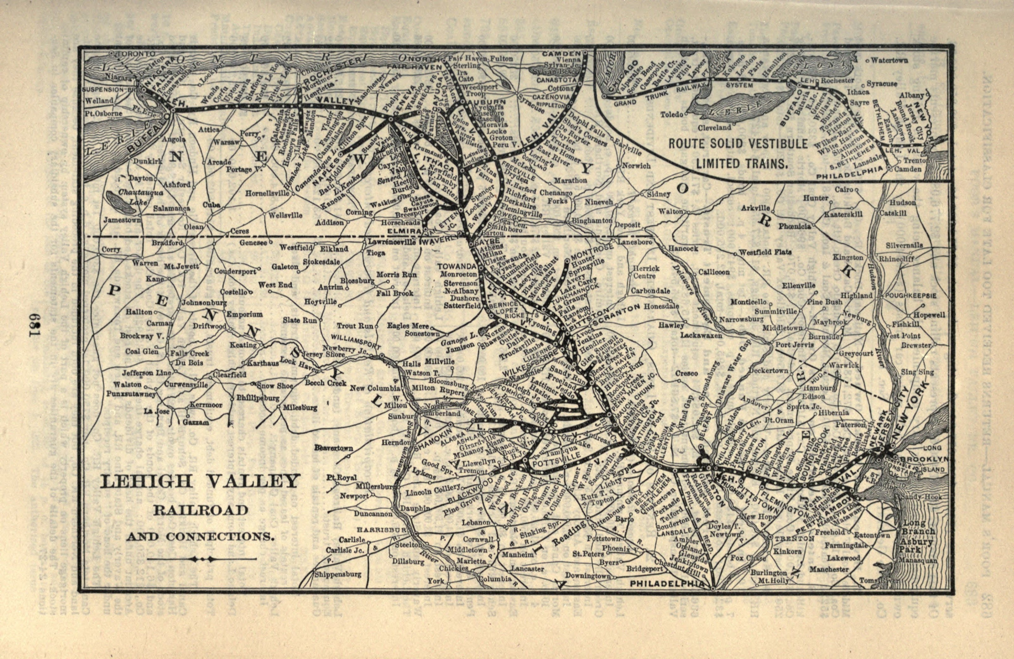 Lehigh Valley Railroad